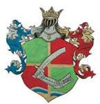 Coat of arms of Hejőpapi, Hungary